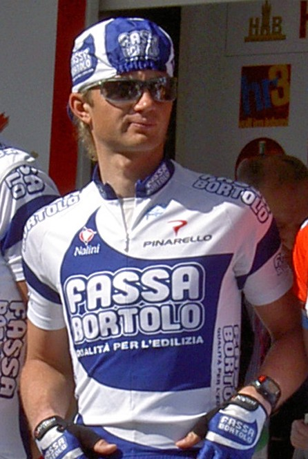 Volodymyr Hustov, presentation Henninger Turm (2005)